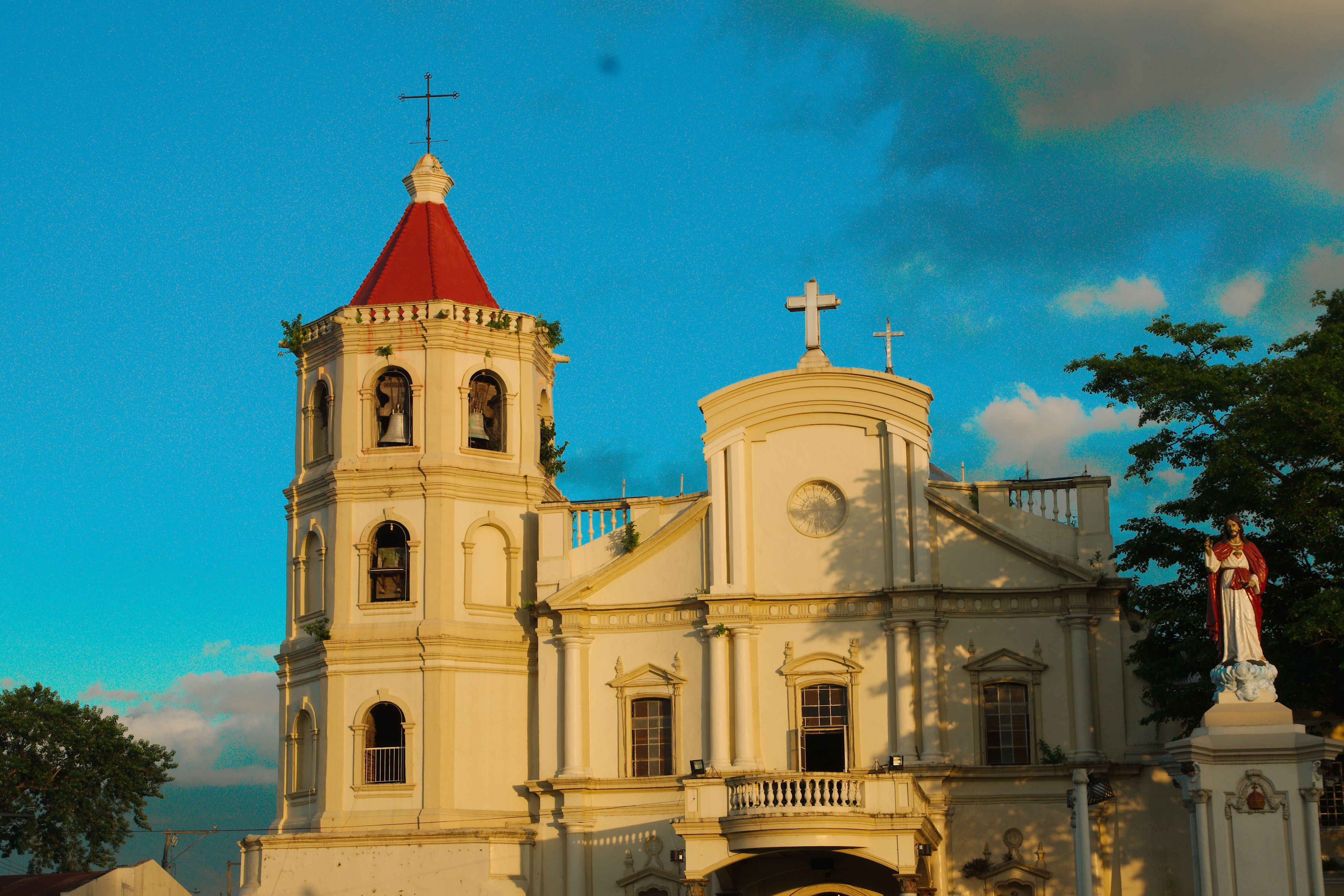 San Pablo City, Laguna